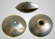 PANArt Hang, 2nd generation (2007)